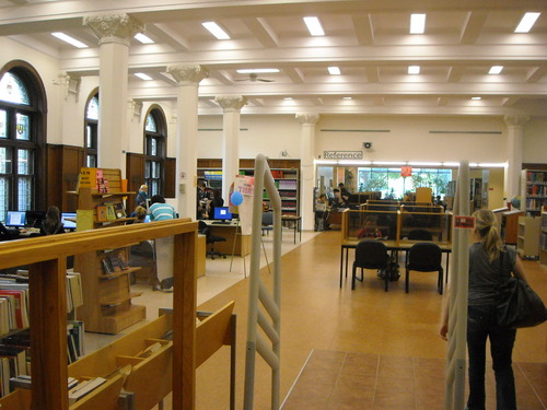 View from the entry of the John Abbott College's Library